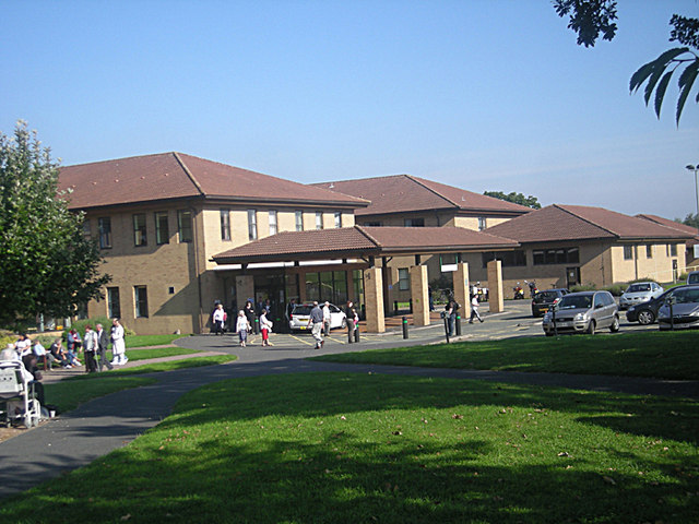 Entrance to Telford Hospital